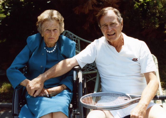 President Bush takes a moment from playing tennis to visit with his mother, Dorothy Walker Bush, at Walker's Point, Kennebunkport, ME, 29 Jul 90.